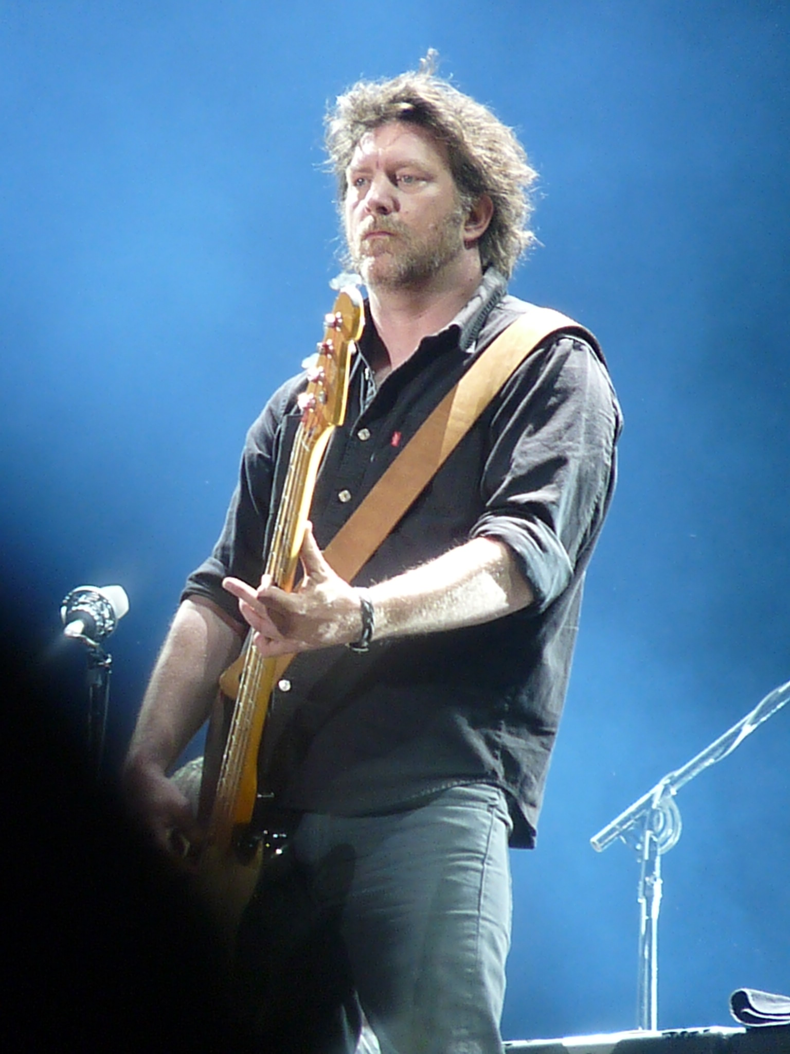 Ben Shepherd live at 2012